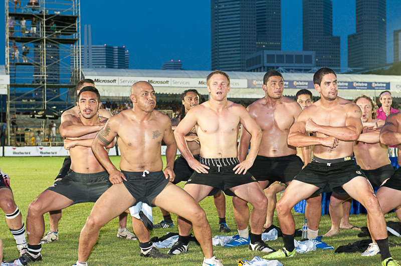 Haka being performed at the SCC Rugby Sevens